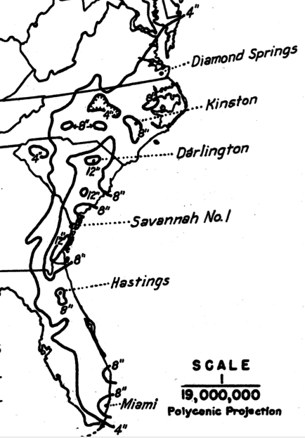 This storm total rainfall graphic for the Lake Okeechobee hurricane was created by the USACE